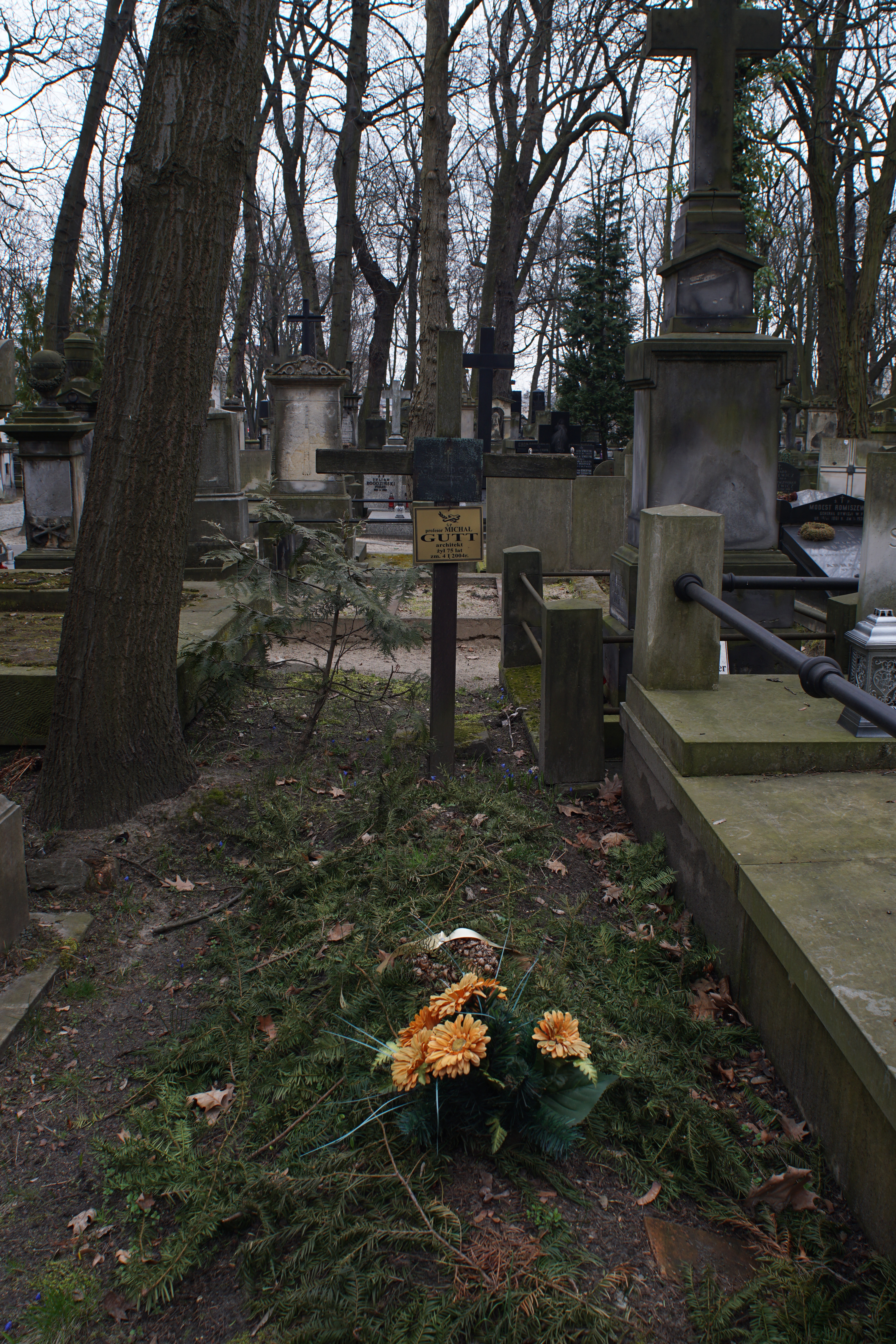 The grave of Romuald Gutt at the Powązki Cemetery (section 6, row 4, grave 5)